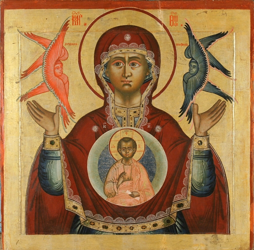 Mother of God "Znameniye" (Sign), Russian icon from first quarter of 18th cen.